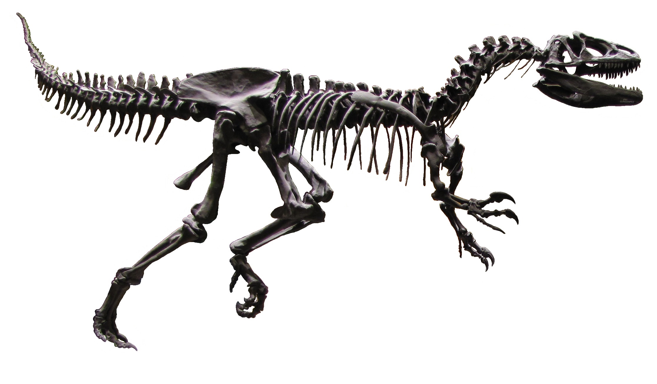 Cast of the skeleton of Allosaurus fragilis in the AMNH (New York, U.S.)